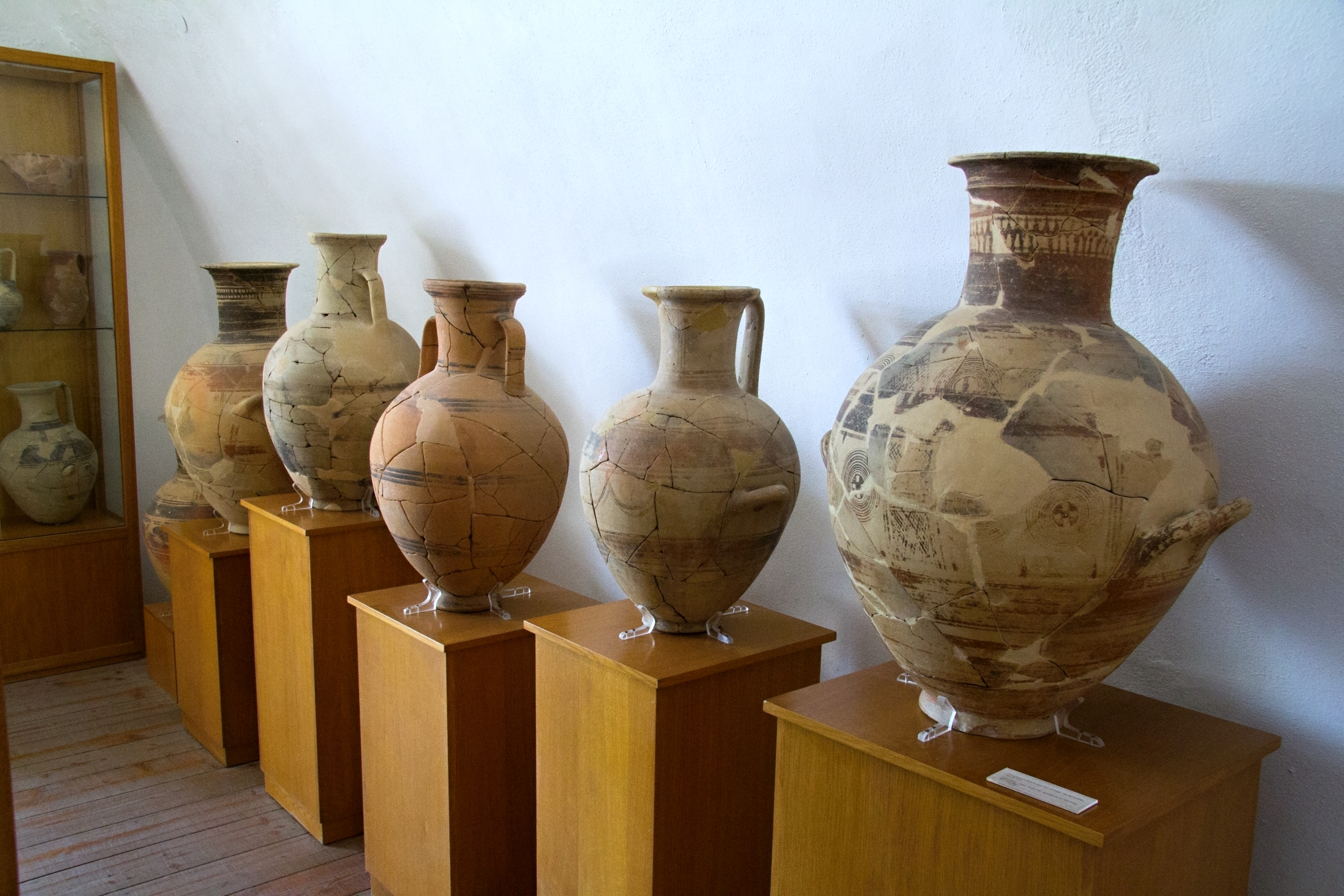 Geometric pottery in the AM of Naxos, gallery V. Finds from island Donoussa, 830 – 800 BC. Archaeological Museum of Naxos.